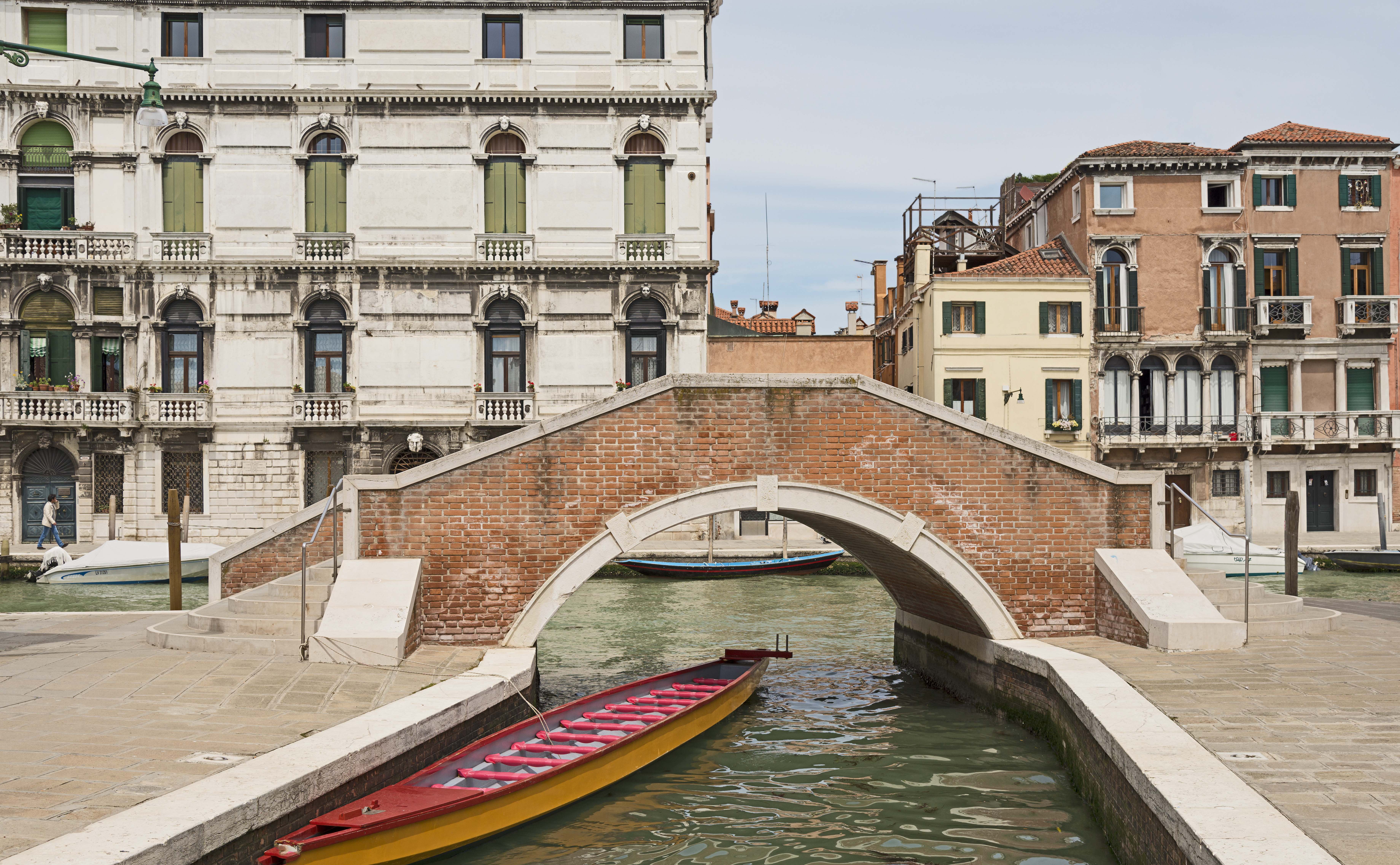 Ponte de la Crea, on rio de la Crea, in Venice